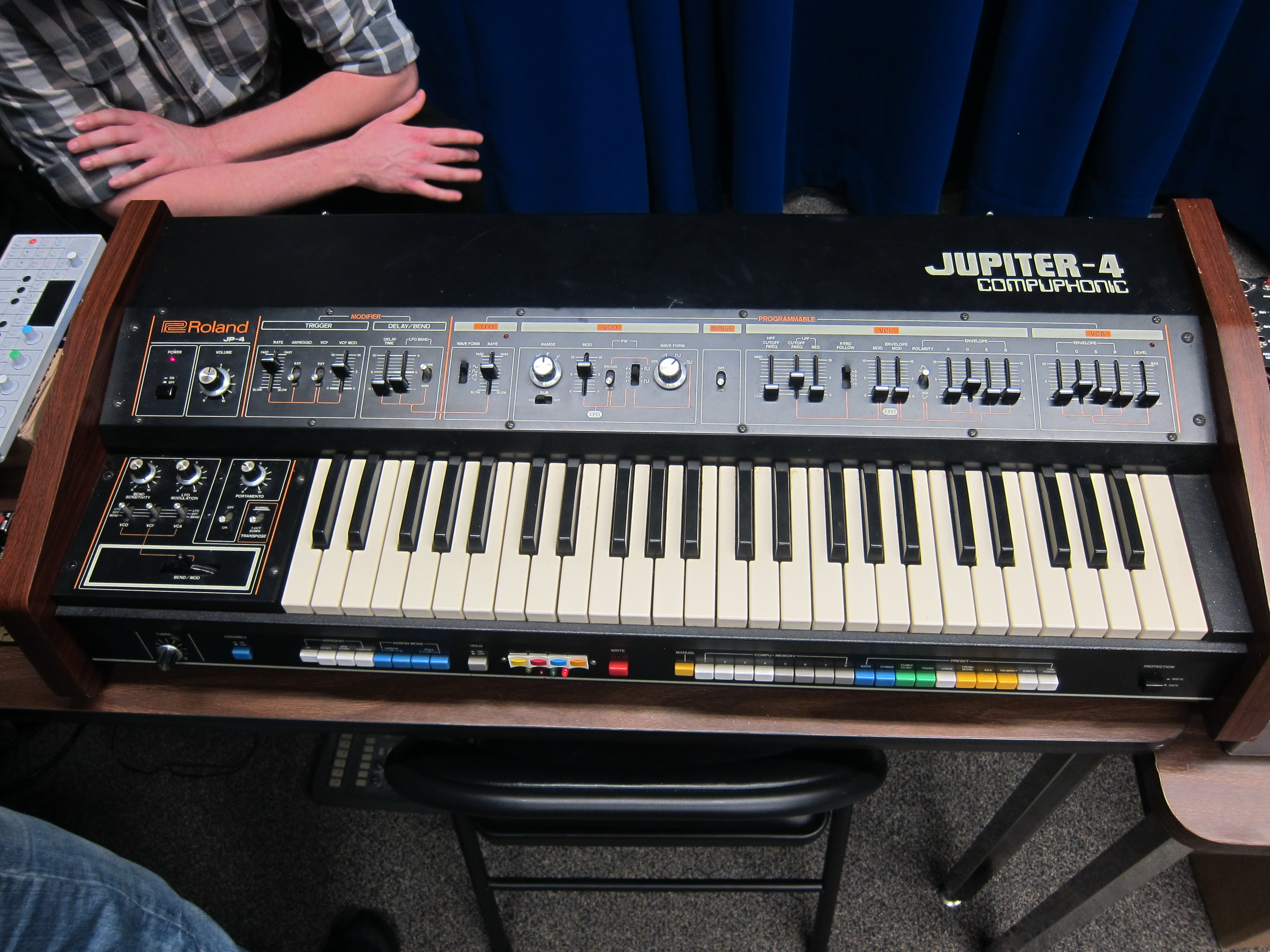 Roland Jupiter-4, PNW SynthFest 2013